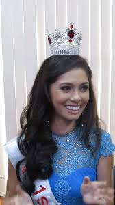 Lorraine at a Press conference in Dumaguete City hall